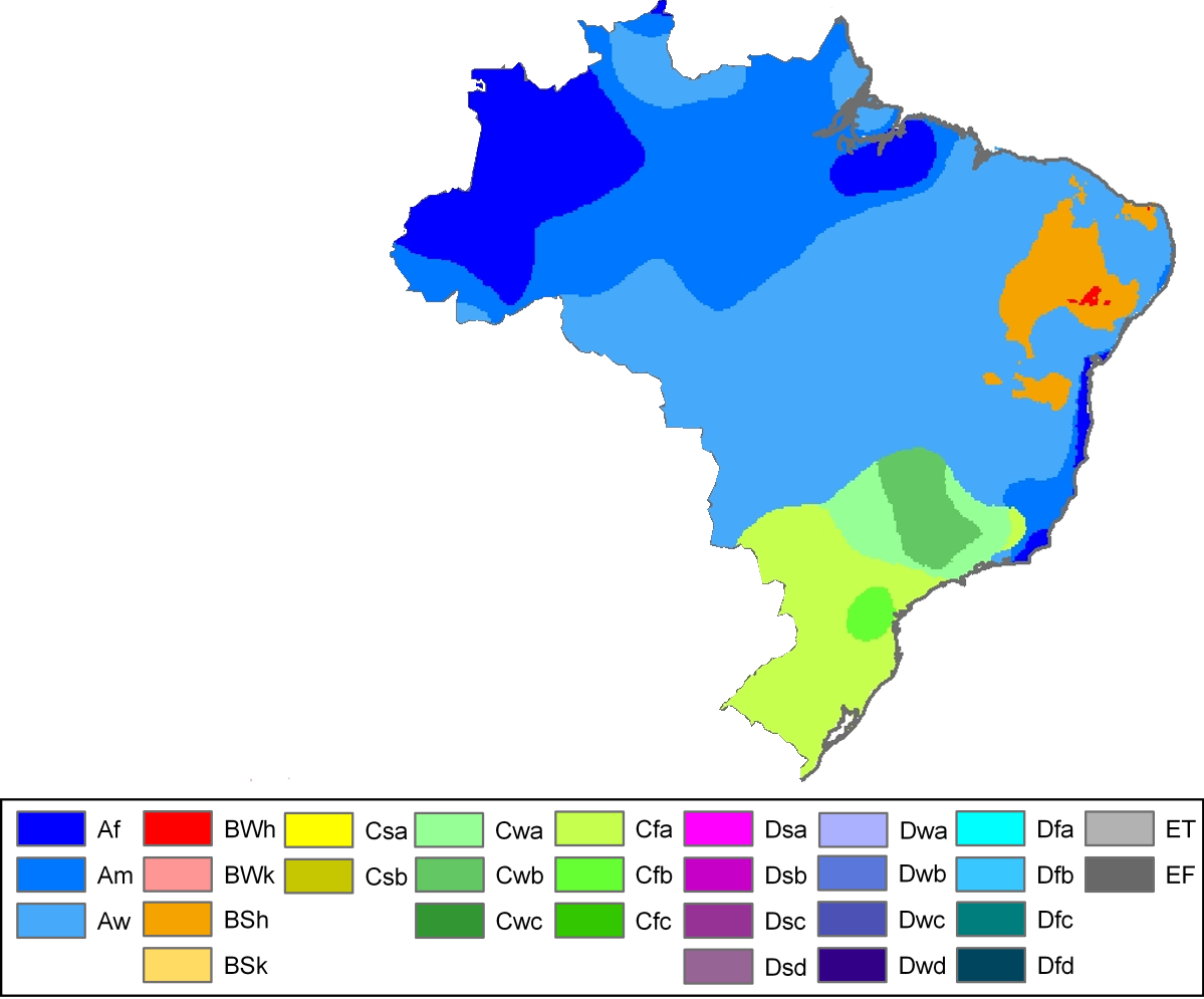 Climate map of Brazil (from the "Updated world map of the Köppen-Geiger climate classification").